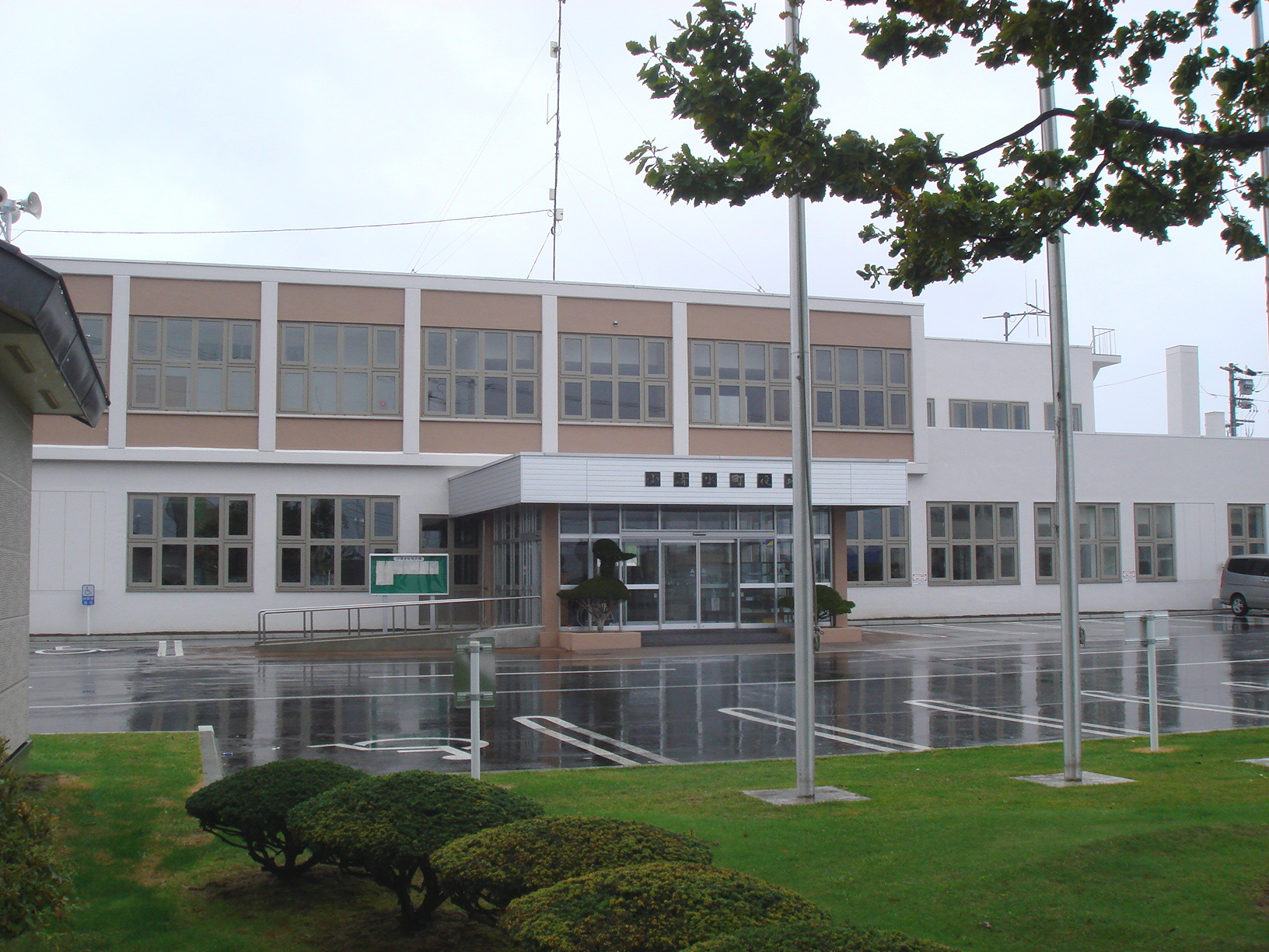 Koshimizu Town Office (Koshimizu, Hokkaido)